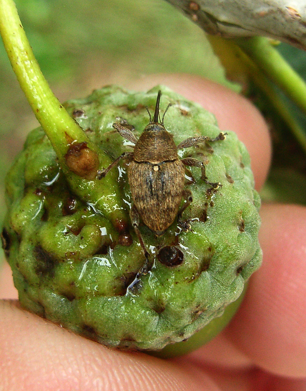 Acorn Weevil (Curculio glandium), Northwest Germany